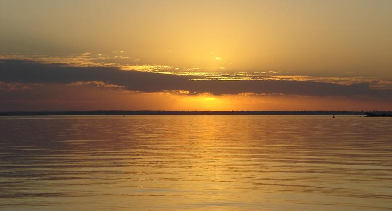 Paraná River at Presidente Eptácio, Brazil.